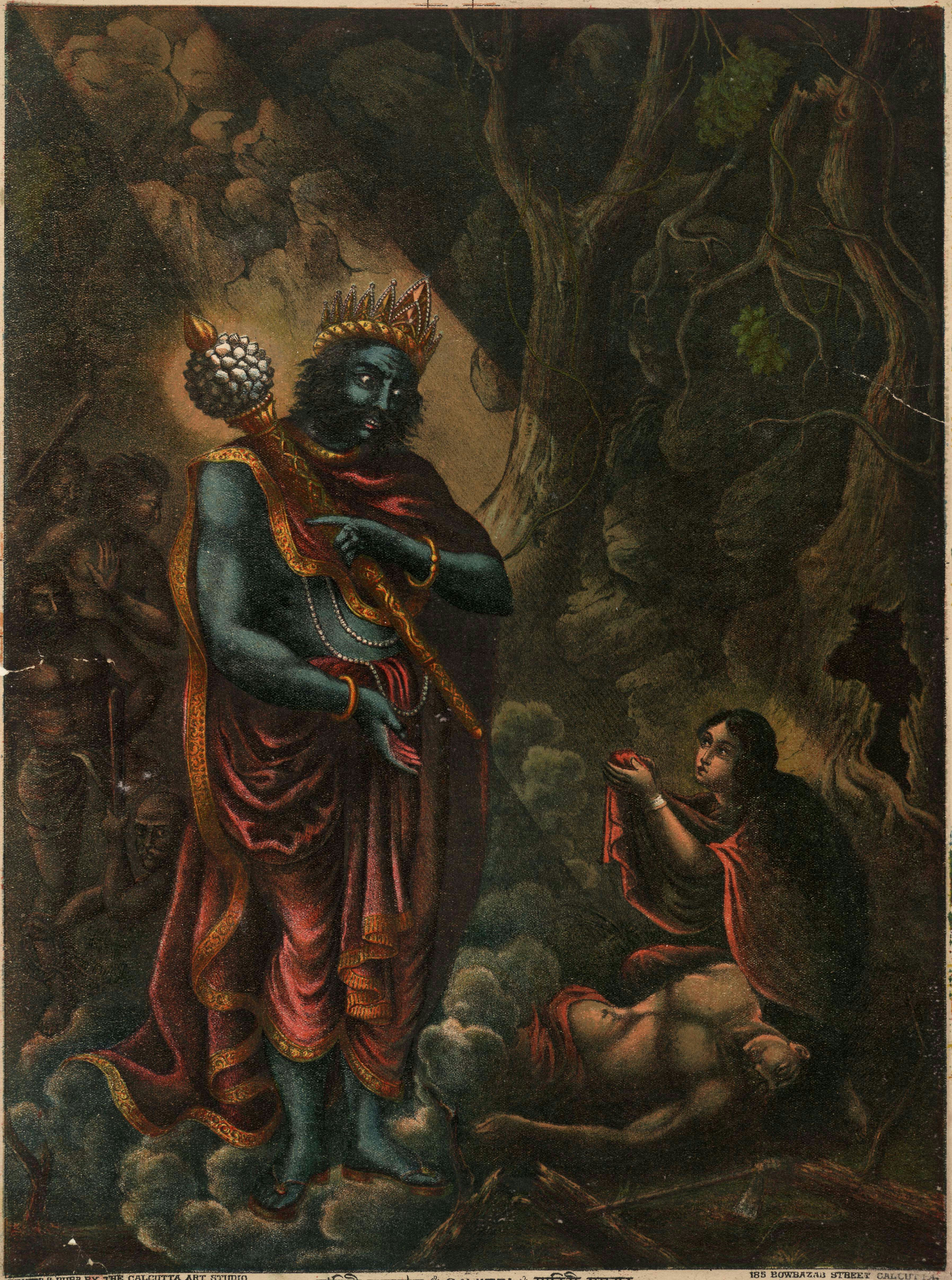 Album of popular prints mounted on cloth pages. Colour lithograph, lettered, inscribed and numbered 12 illustrating the story of Savitri's defeat of the god of death, Yama. The print is dominated by the terrifying standing figure of Yama to whose left are seen the beseaching figure of Savitri and her dead husband Satyavan.